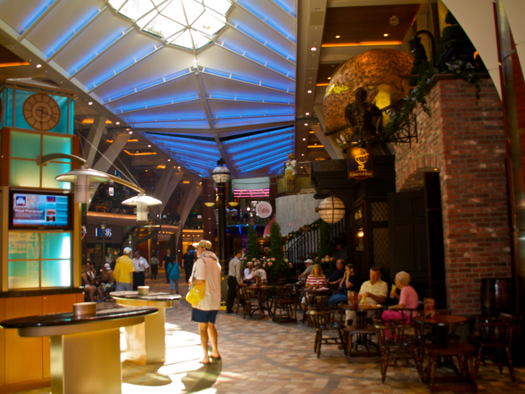 Oasis of the Seas